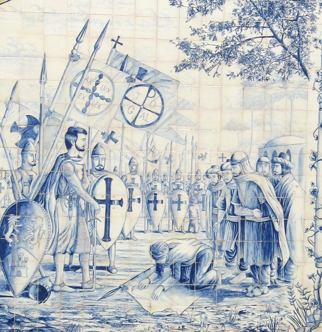 Alcobaça, Portugal, Mosteiro, Coutos de Alcobaça, former county of the Abbey, one of the cities: Alvorninha, Azulejos (tiles) of 1940 showing the rendering of the Moors by King Afonso Henriques in March 12th 1143